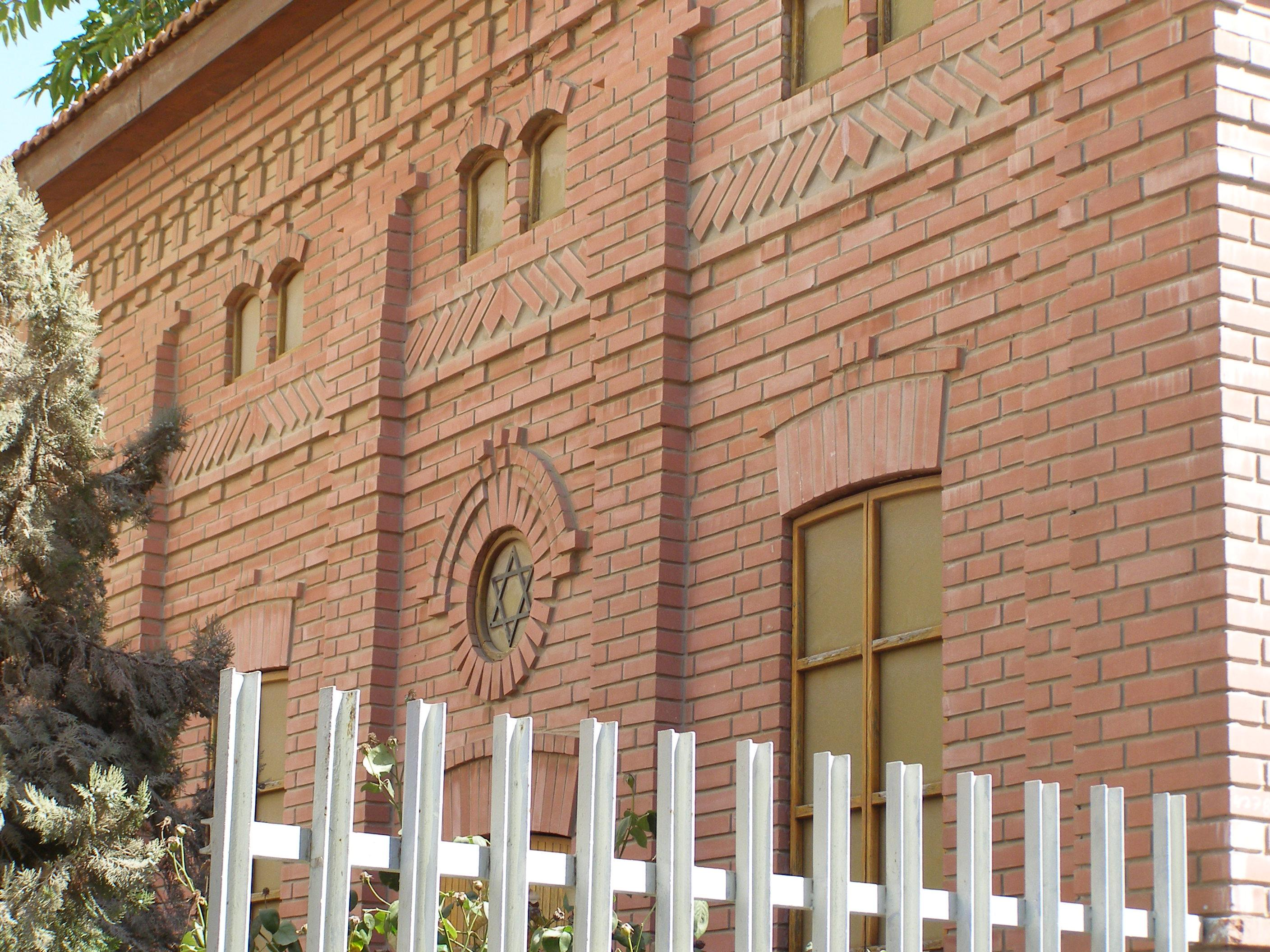 Replica of the facade of the Gur beth midrash in Poland on a wall beside the Sfas Emes Yeshiva in Jerusalem